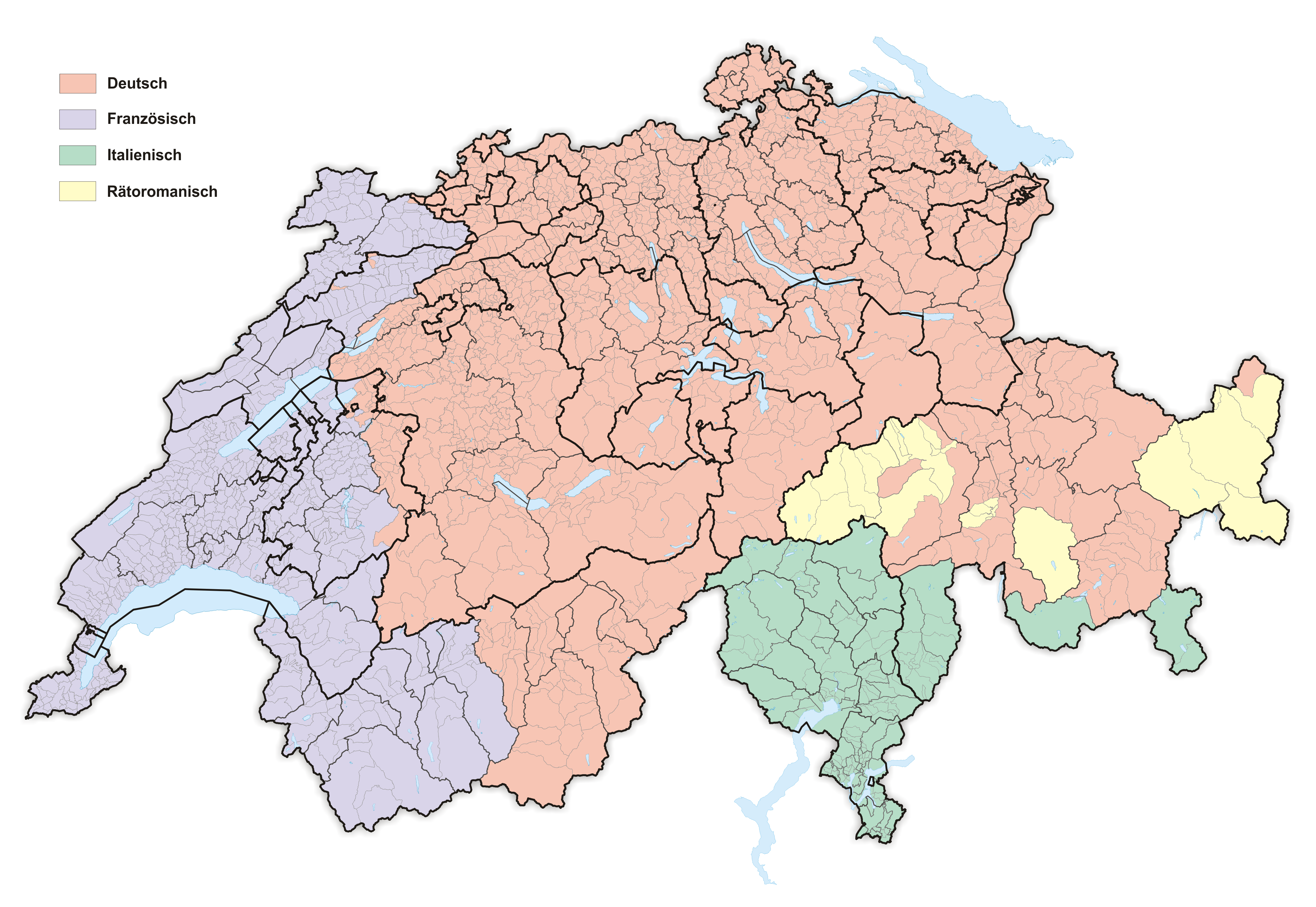 Languages in Switzerland